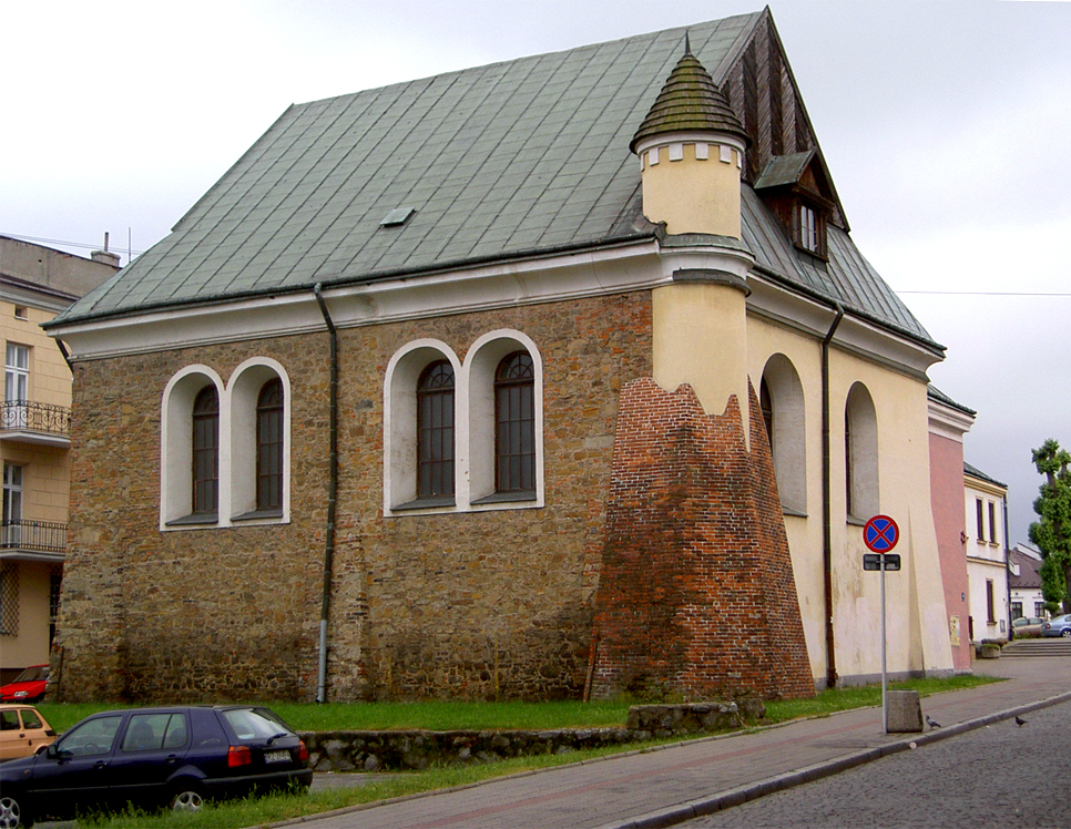 Old Town Synagogue in Rzeszów, Poland